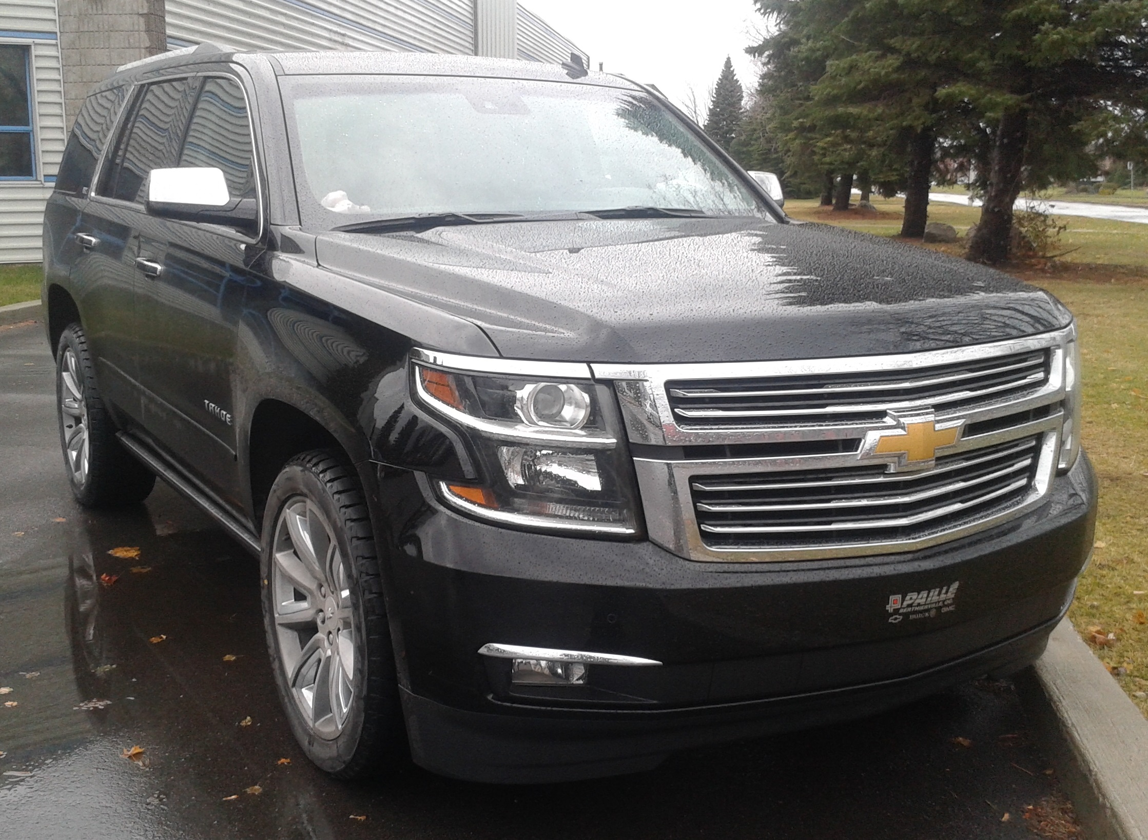 2015 Chevrolet Tahoe photographed in Pointe-Claire, Quebec, Canada.